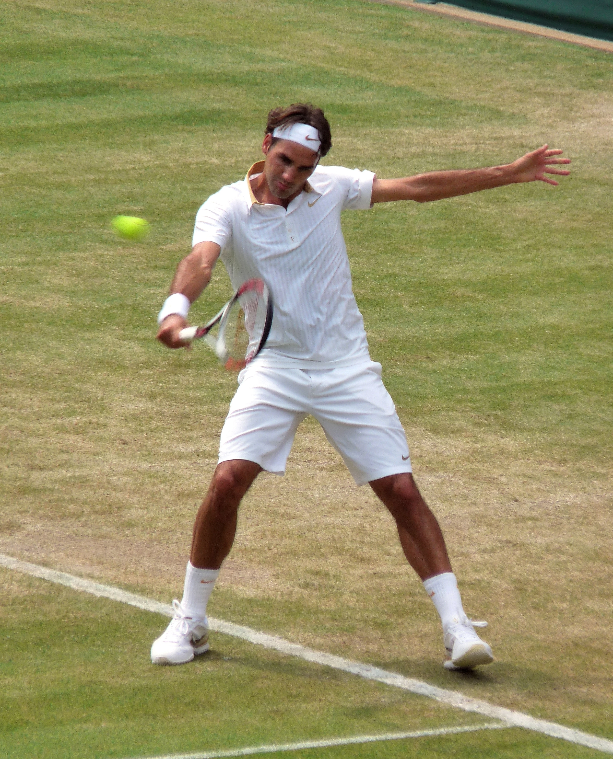 I'm quite chuffed with how the camera coped, considering we were quite far back and I was lacking in tripod!